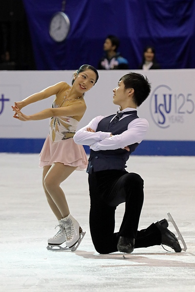 Riku MIURA Shoya ICHIHASHI JPN – 13th Place